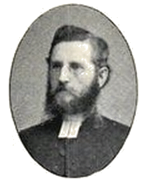 Portrait of the Swedish priest Fredrik Ekman.